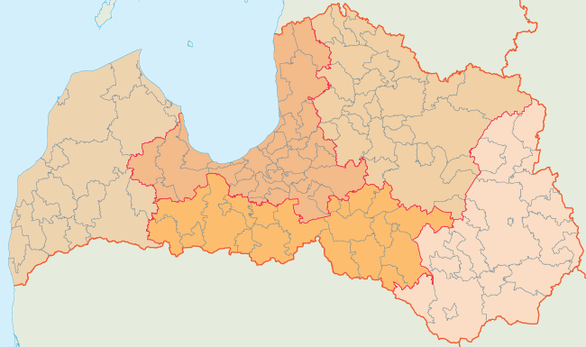 Location map of the Latvian planning regions.